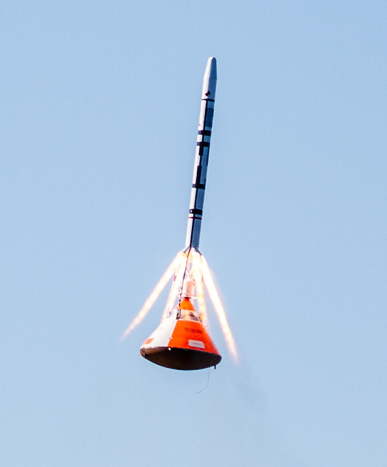 Tycho Deep Space (pad abort test)